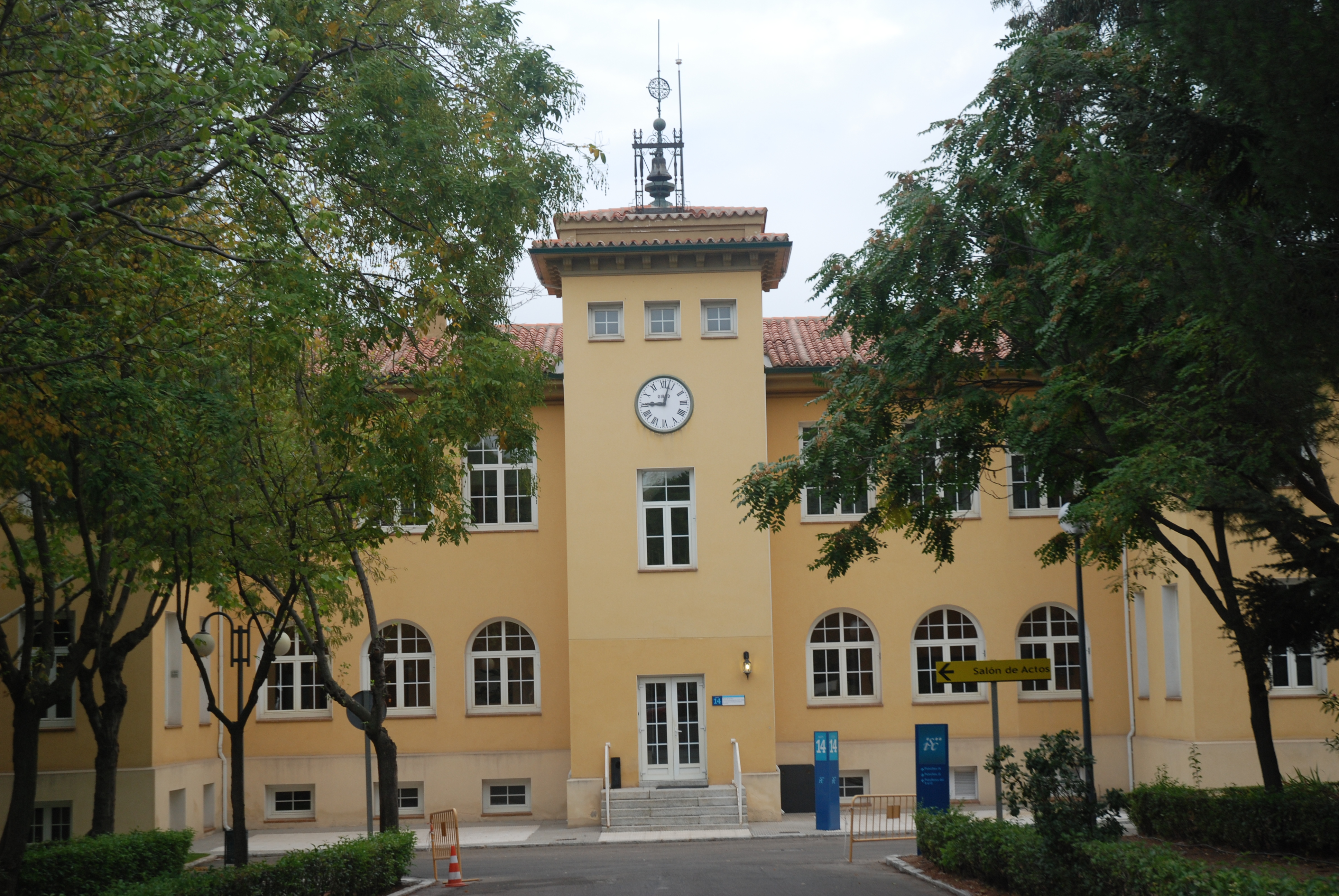 ISCIII edificio del reloj